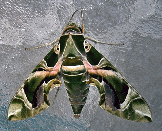 Oleander Hawk-moth (Daphnis nerii).